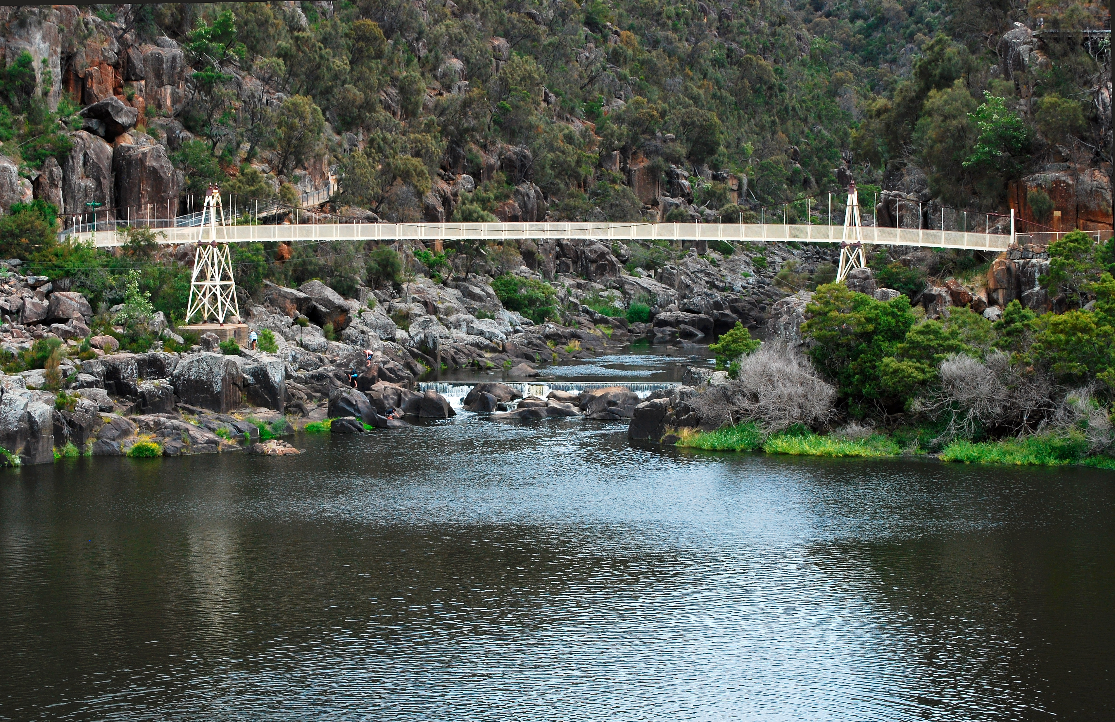 First Basin and the Alexandra Suspension bridge, Cateract Gorge, Launceston, Tasmania